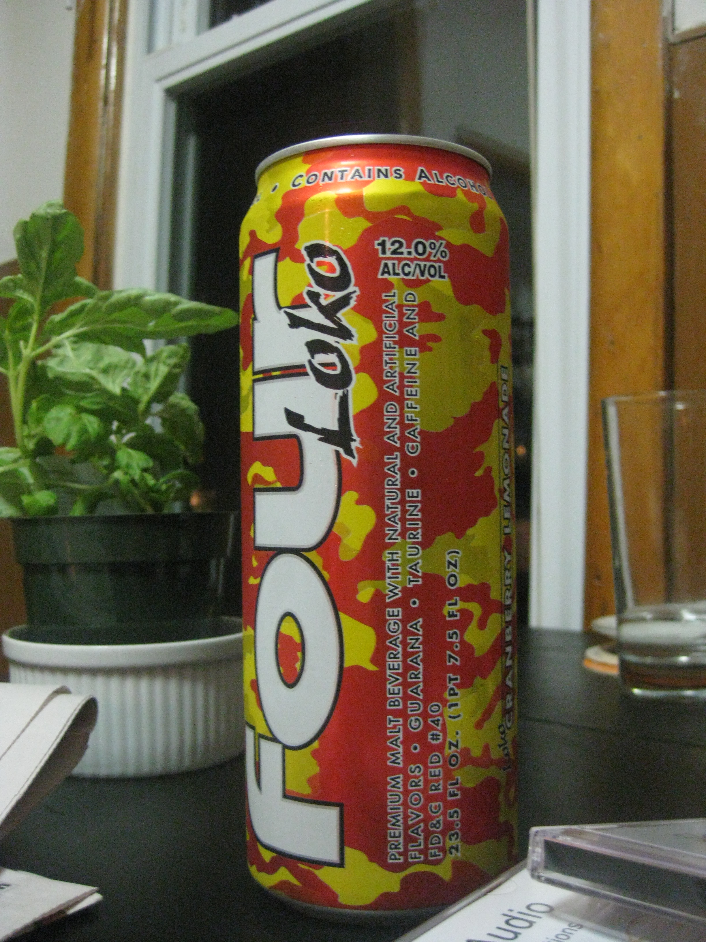 One 23.5 ounce can of the Four Loko alcoholic energy drink. 12% ABV.